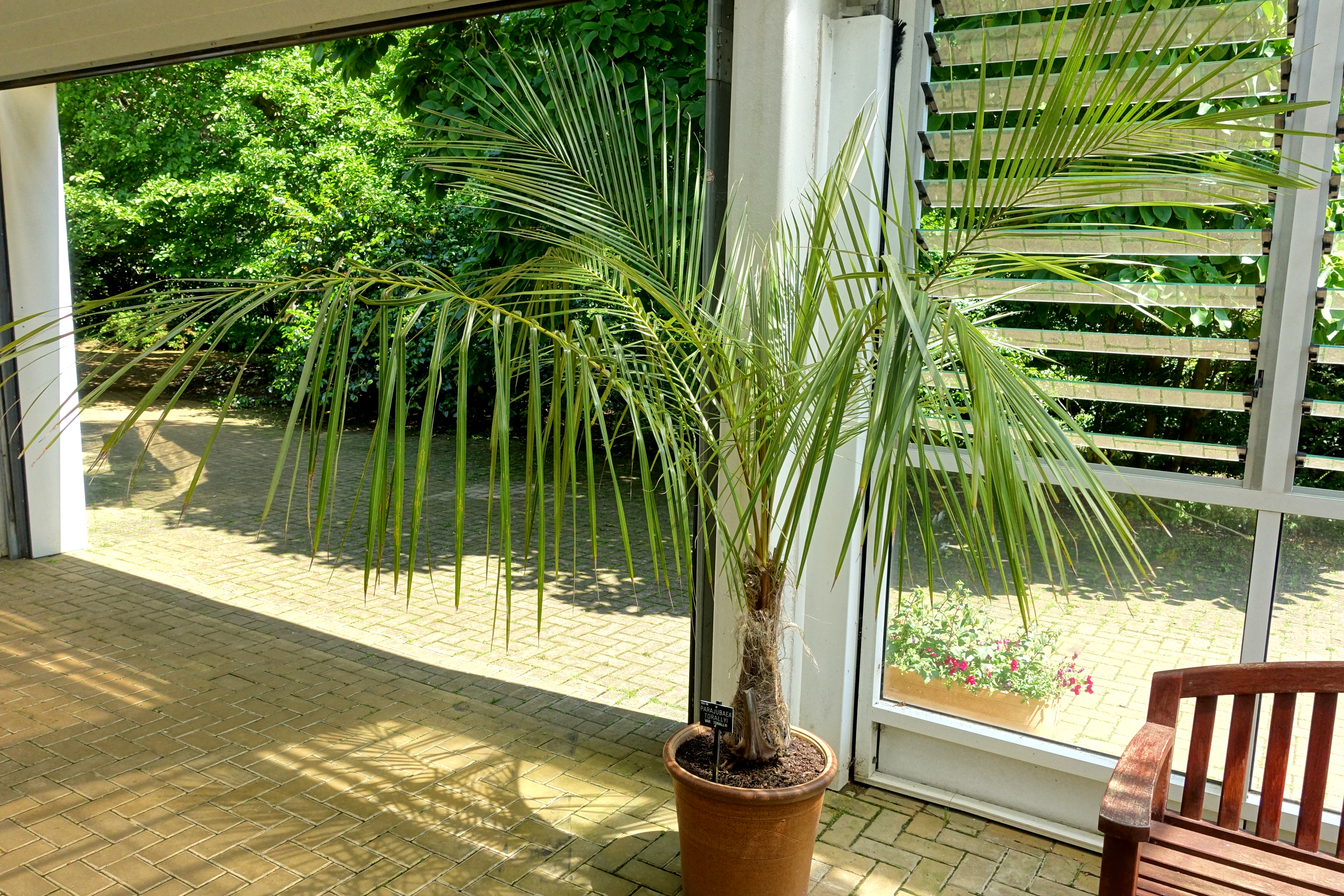 Horticultural specimen in Savill Garden - Windsor Great Park, England.